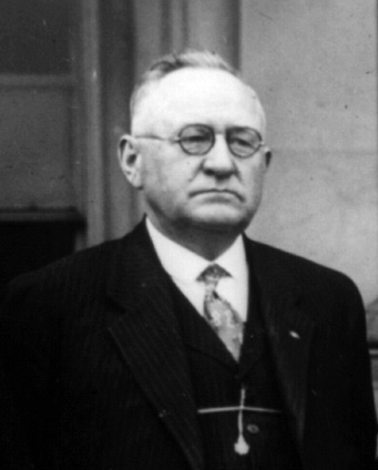 George W. English, U.S. federal court judge, making an appearance before the U.S. Senate on impeachment charges